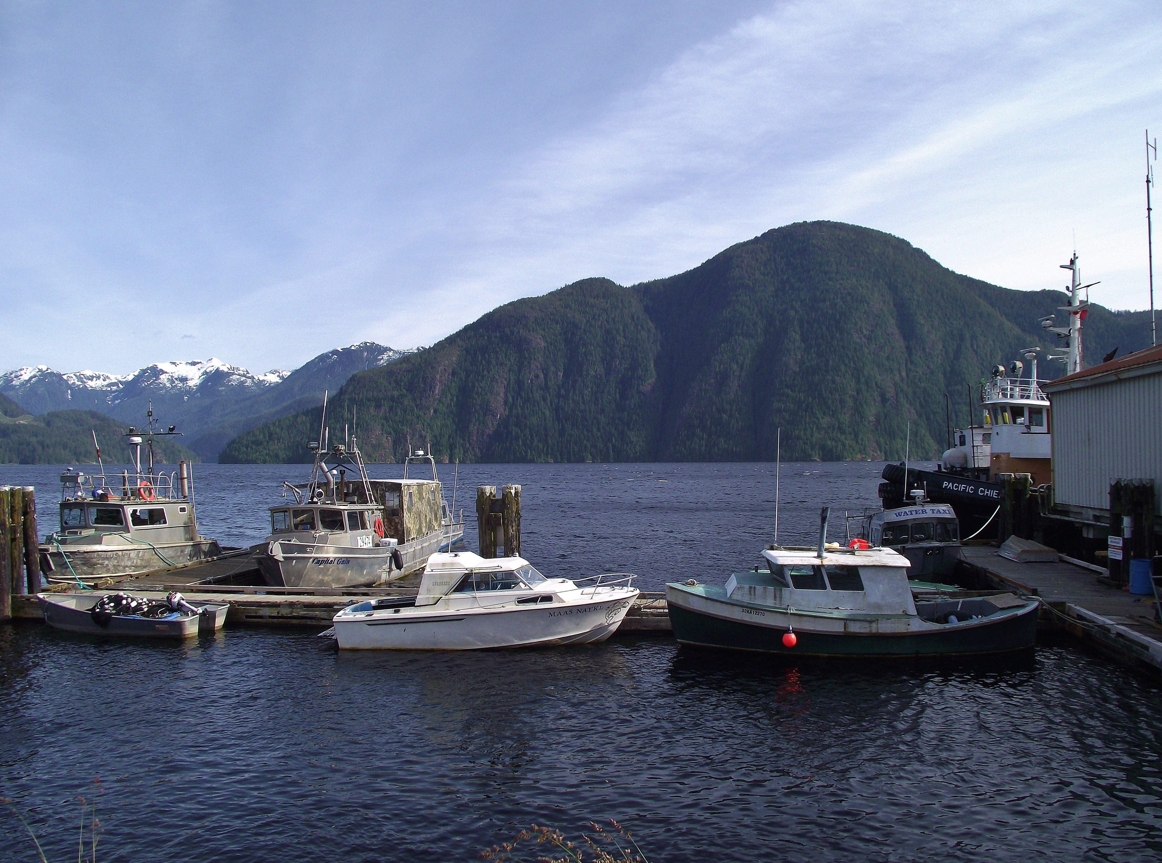 Dock at Muchalat Inlet of Nootka Sound, near Gold River, British Columbia.